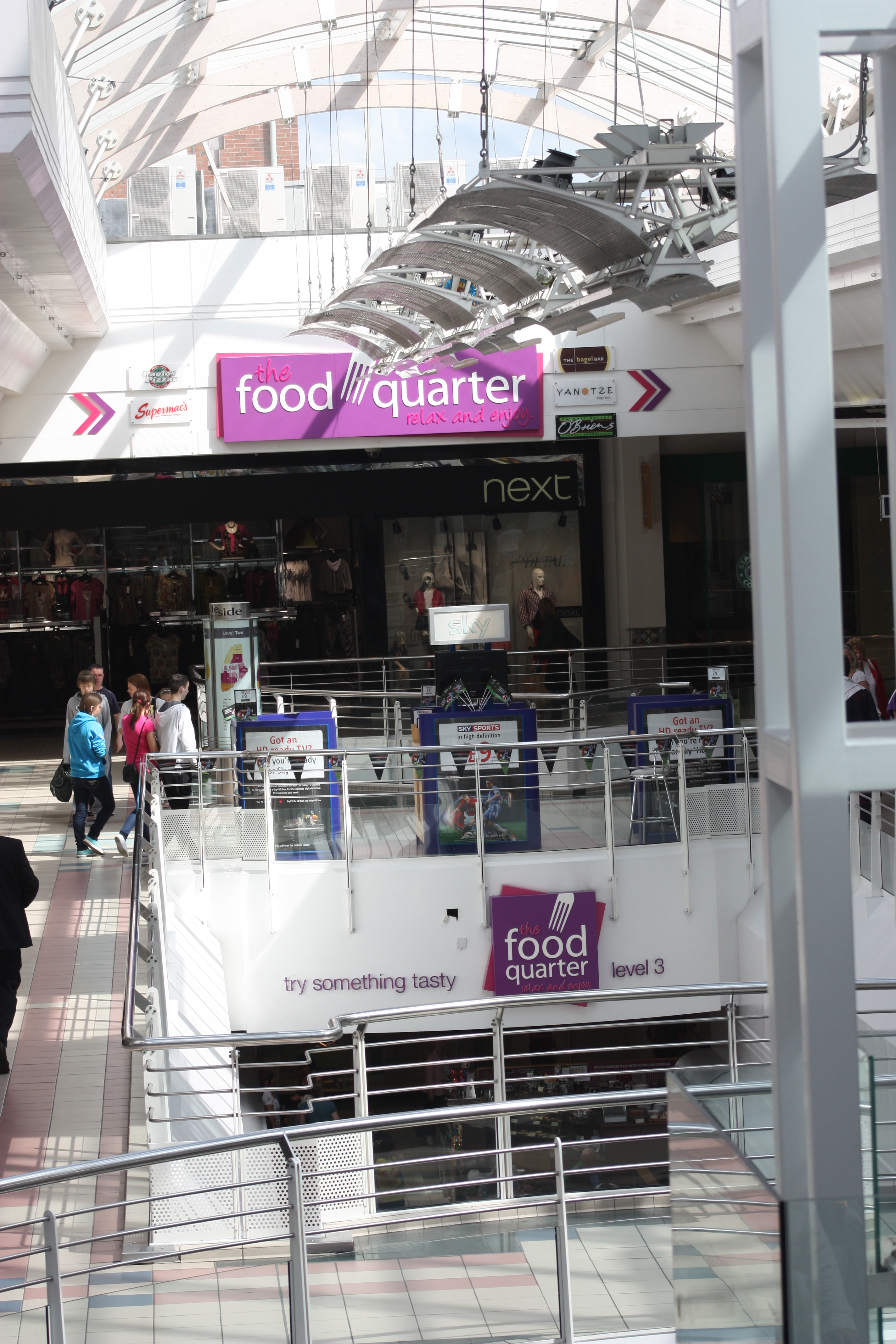 Foyleside Shopping Centre, Orchard Street, Derry, County Londonderry, Northern Ireland, August 2009